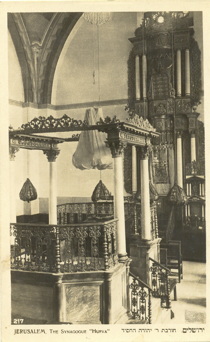 Interior of the Hurva Synagogue c1920; published by Eliahu Bros, Jaffa 1920-1936